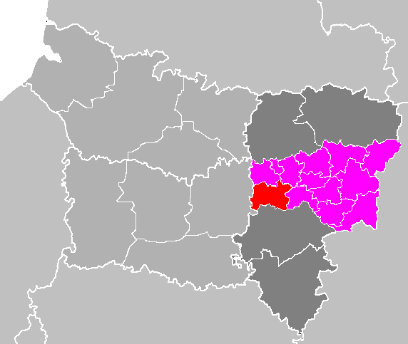 Maps of arrondissements and cantons of France: Arrondissement de Laon